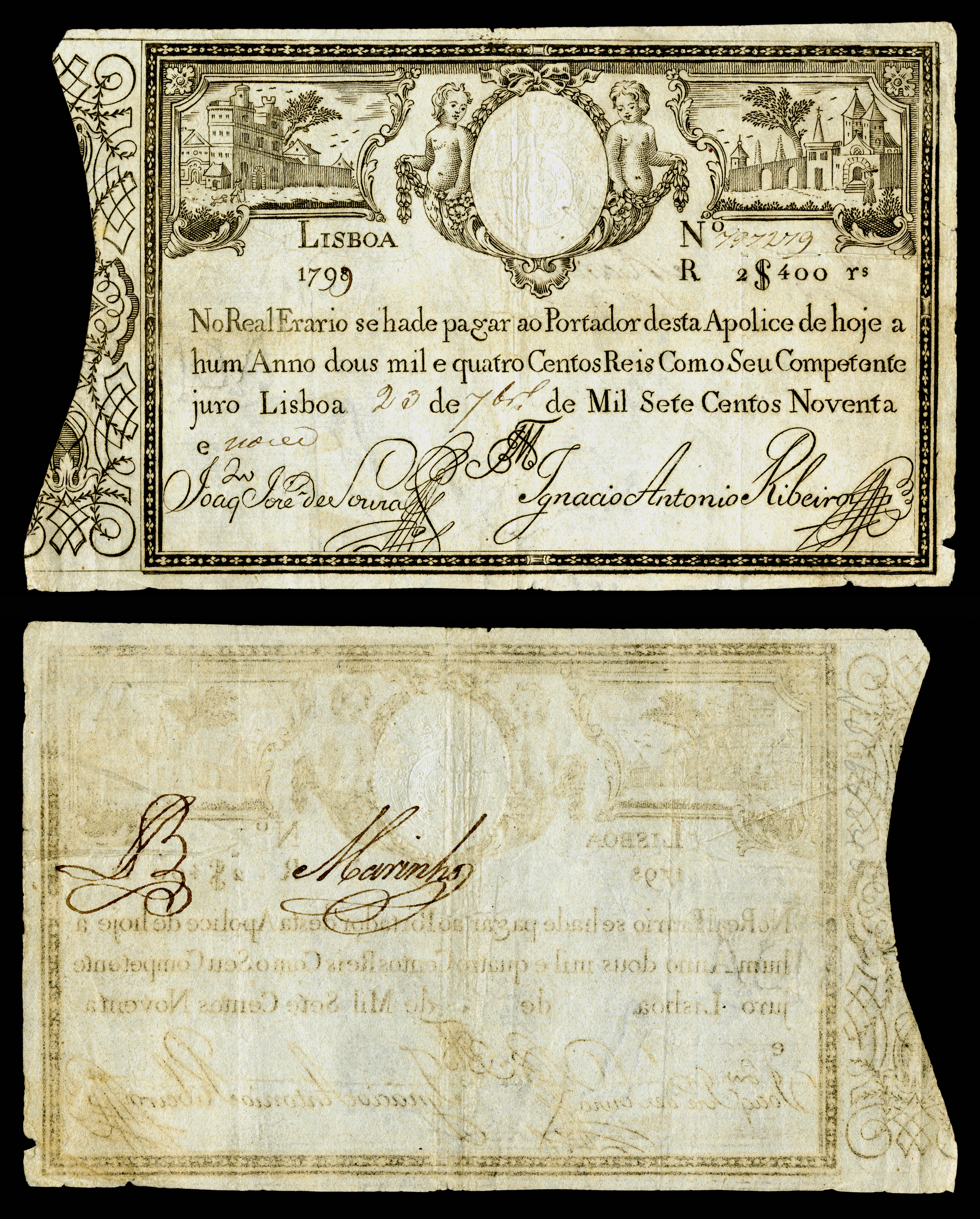 Kingdom of Portugal, Imperial Treasury, 2400 Reis (1798-99)The Royal Treasury has to pay the Bearer of this Policy within one Year of today two-thousand four-Hundred Reis. As Its Representative I swear Lisbon 20 of (???? April?) Seventeen Ninety-Nine